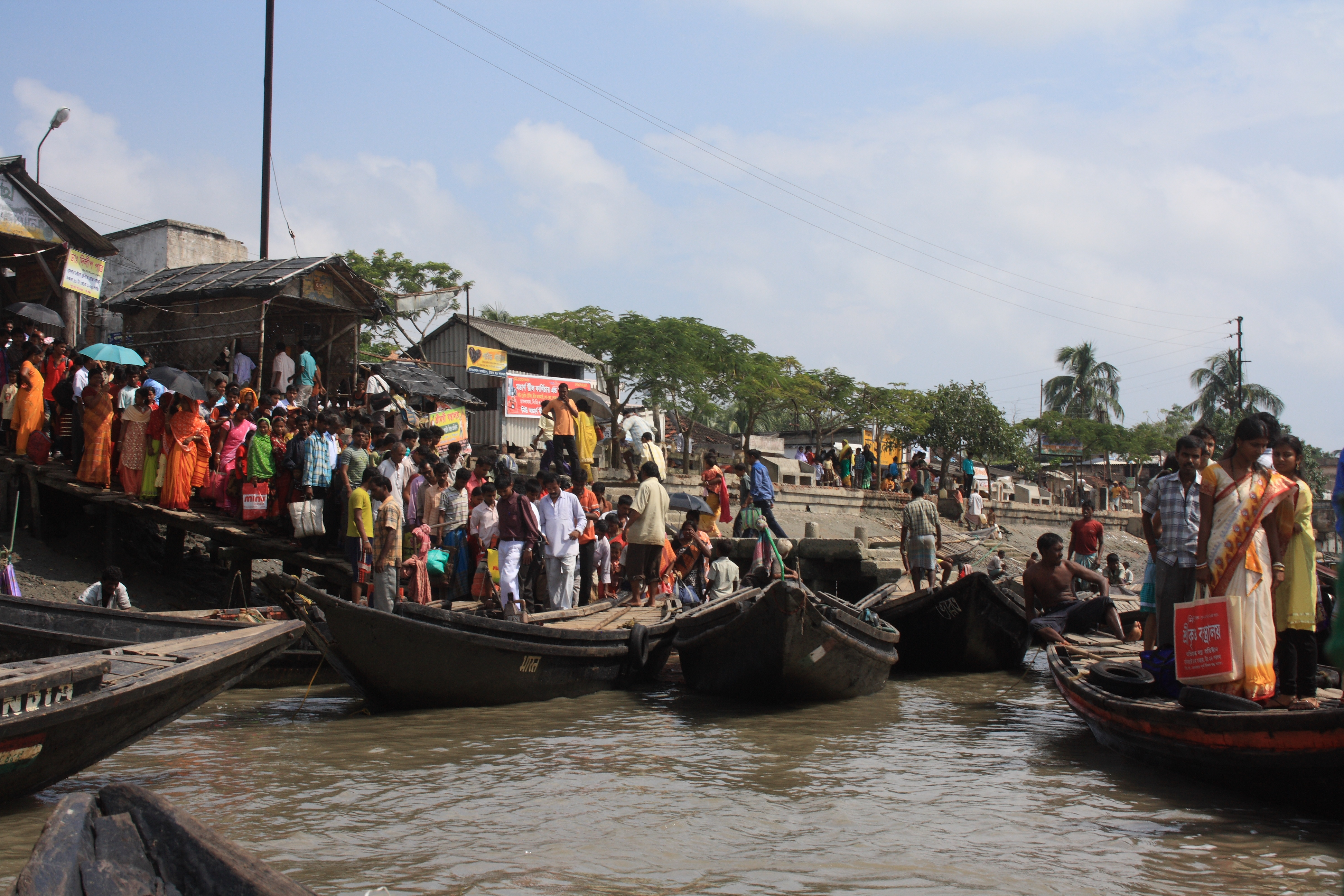 A lot of bustle at the ferry pier of Hasnabad. Those ferries are crossing a branch of River Ganges to connect Hingalganj which is on an island in the ganges delta. All boats have an engine. As the wooden boats have many leaks, bilge pumps are included in the engines and pretty busy. A lot of folks, motorcycles, bicylcles, chicken... a lot of stuff aboard except life jackets. All boats have "India" written on the hull as the Bangladesh border is very close.